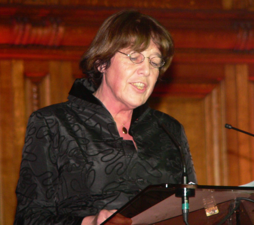 Catherine Bréchignac, president of CNRS, making a speech the gold medal of the CNRS is bestowed on cryptologist Jacques Stern